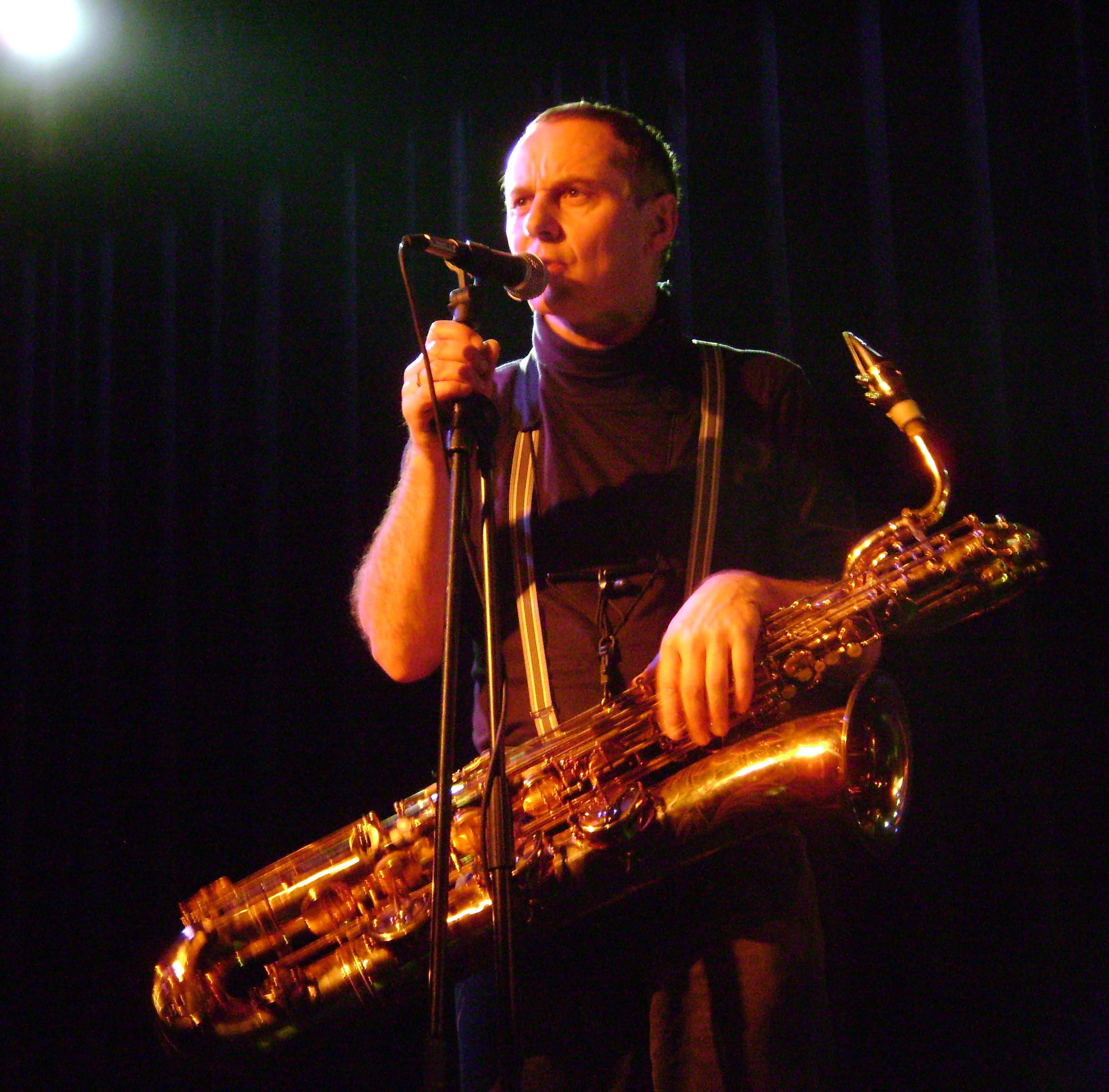 Florian Bramböck at a concert with Saxofour. Treibhaus Innsbruck, 2008